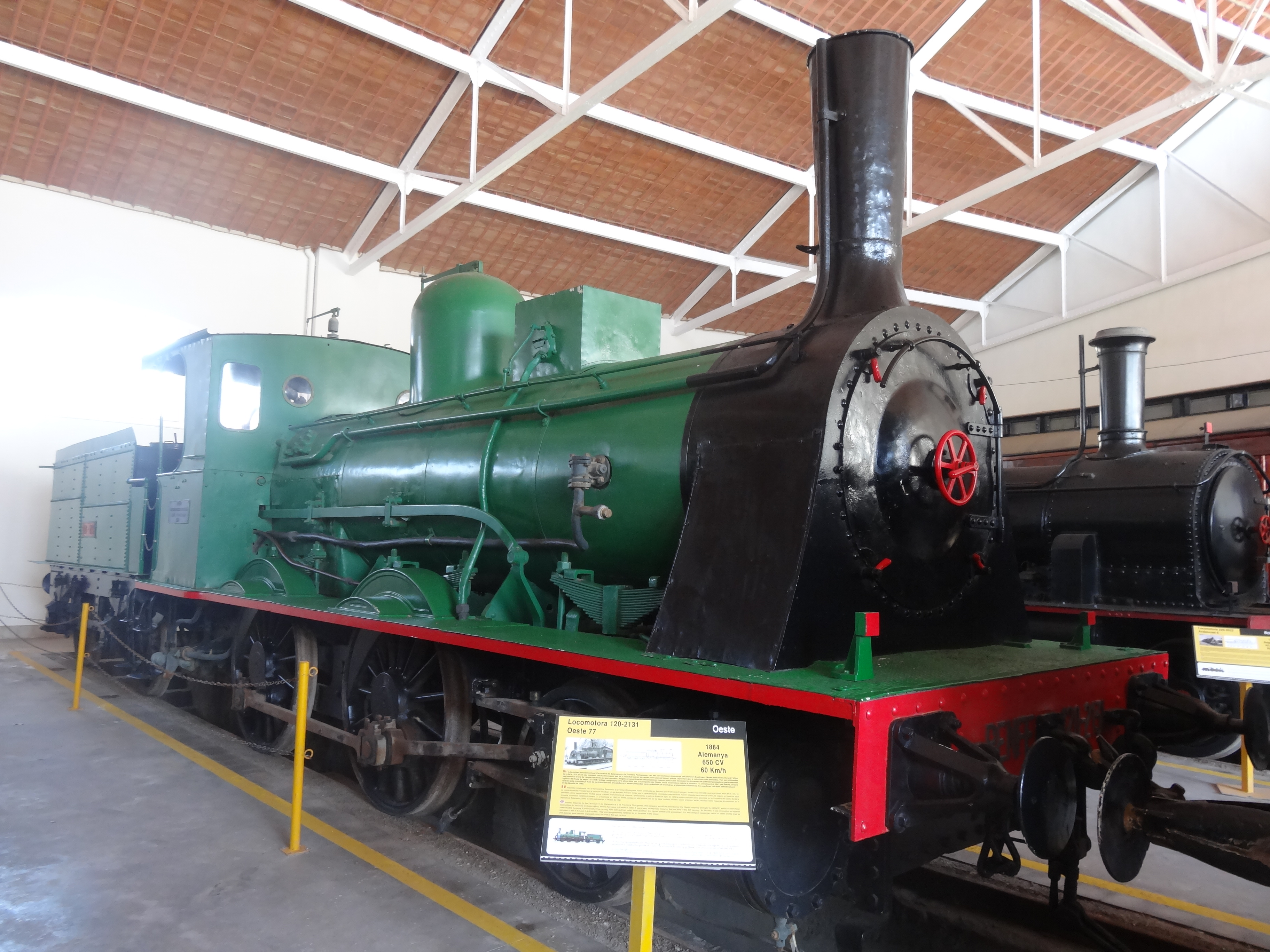 Railway museum (Vilanova i la Geltrú).